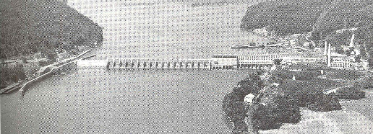 Hales Bar Dam, on the Tennessee River, as it appeared in 1949 after improvements made by the Tennessee Valley Authority. Note: Pixelation in the image was caused by the digital scan, and isn't present in the original image.